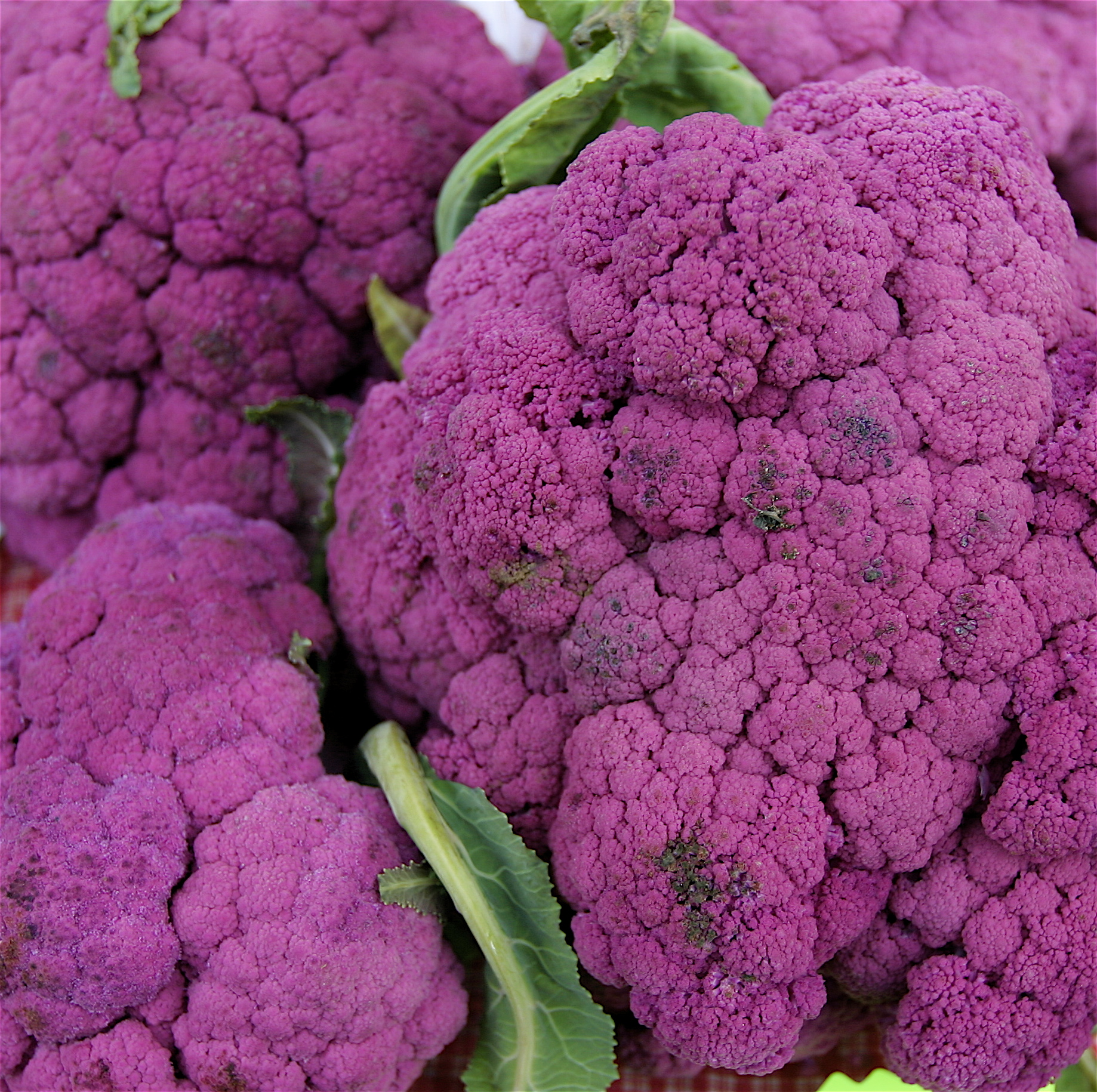 Chroniflower, of the subspecies caulicannabanis